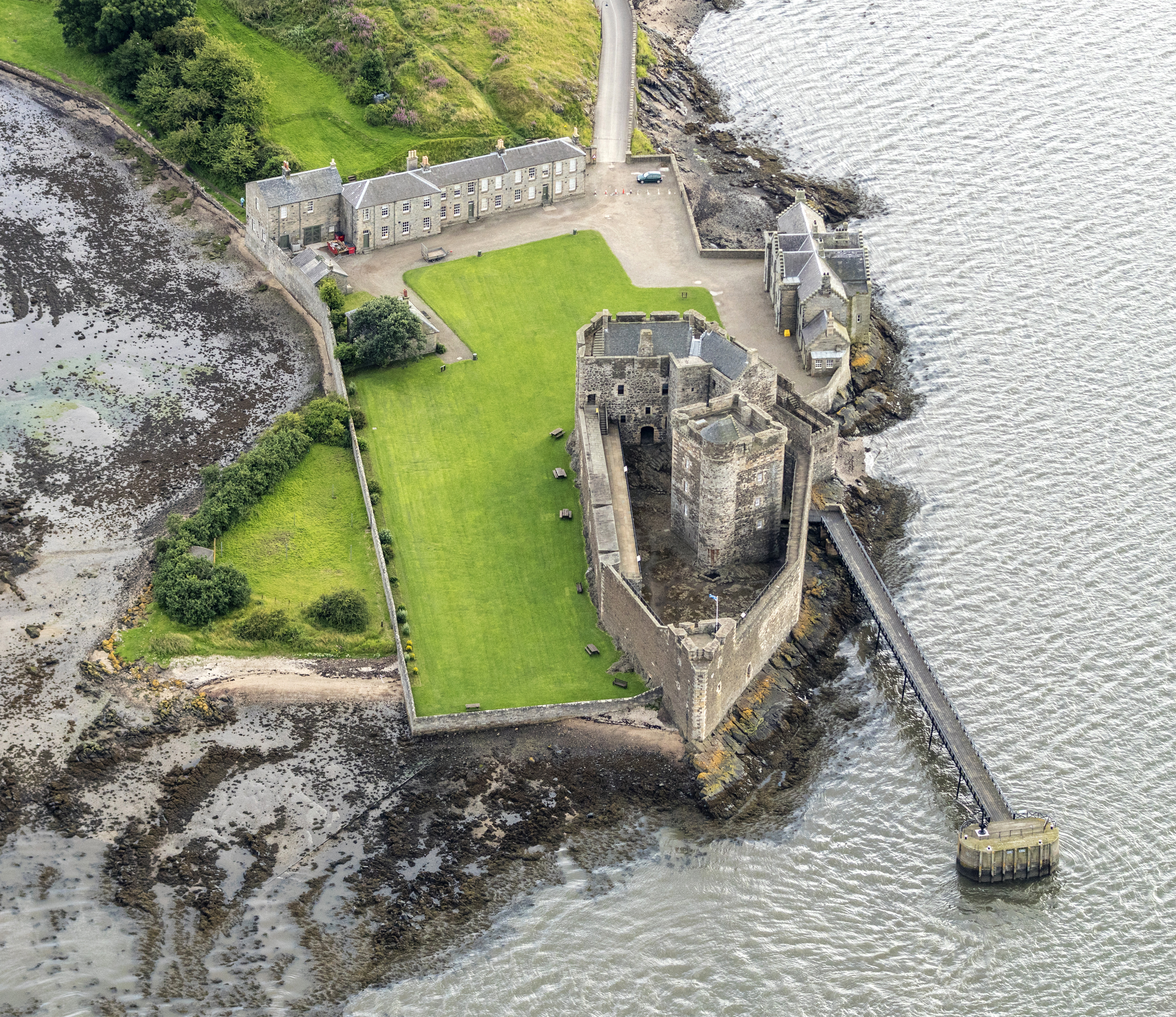 Derived from File:Scotland-2016-Aerial-Blackness Castle 01.jpg; edits (left & right crop + gamma correction) by Janke.